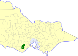 Location of the former Shire of Colac within Victoria.